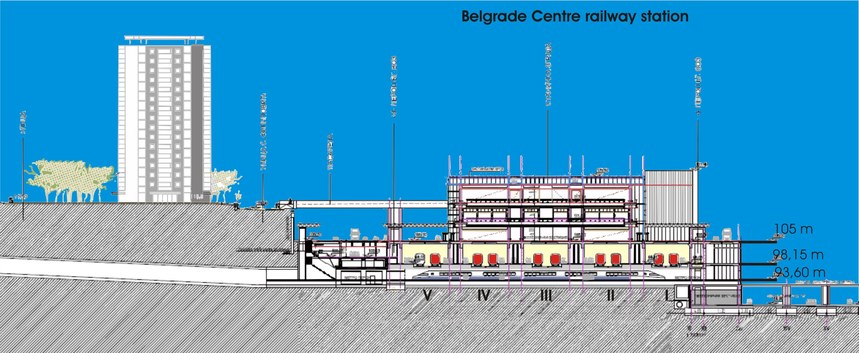 Prokop transect N-S